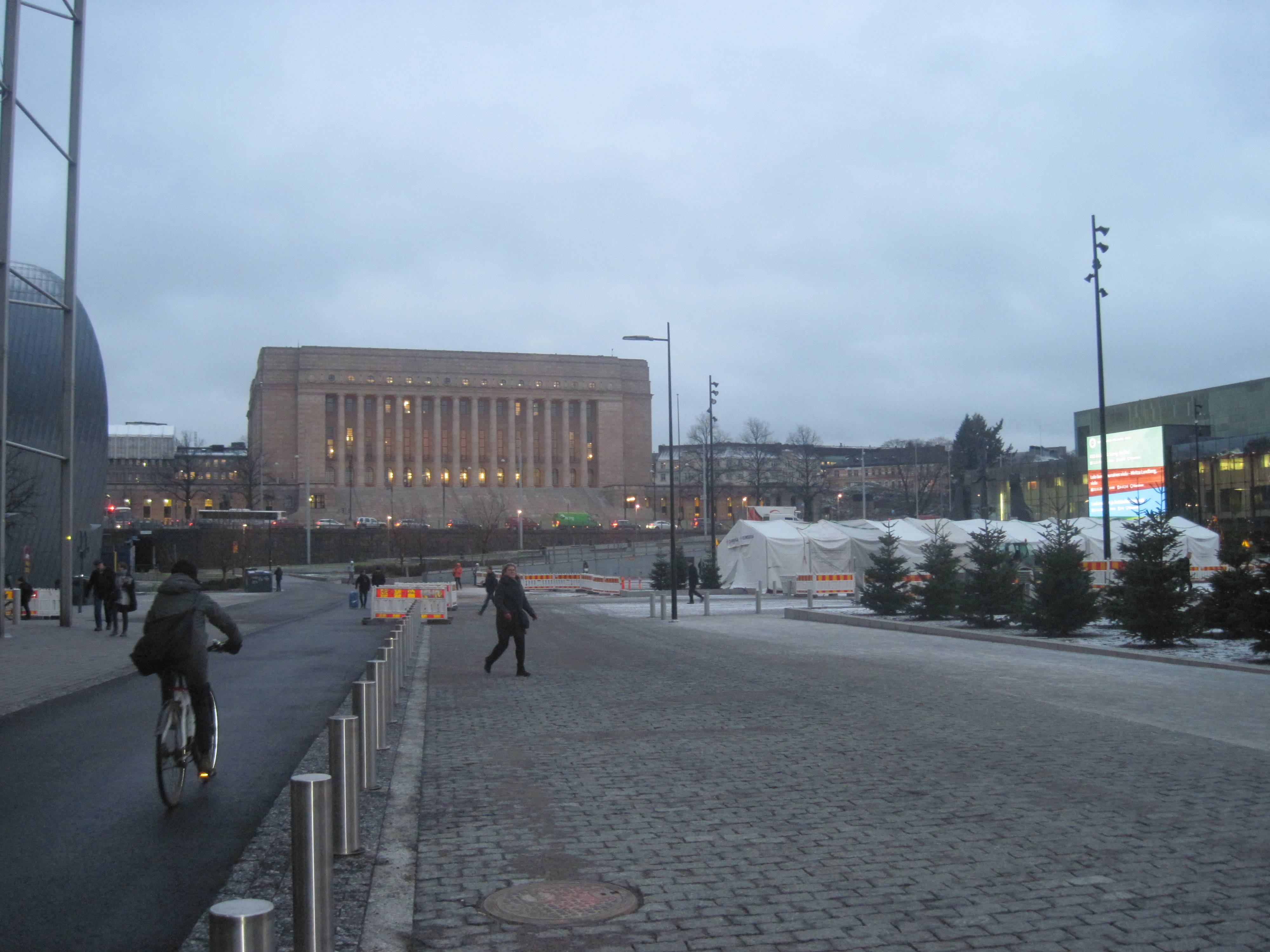 Kansalaistori Square in Helsinki, as seen from East. In the background, the Parliament Building